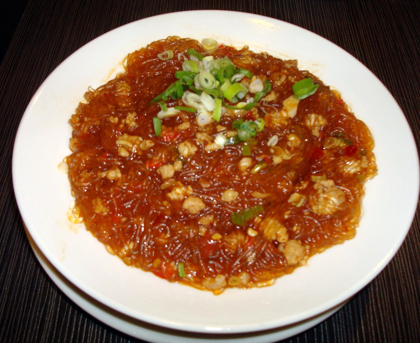 glass noodles Szechuan cuisine 螞蟻上樹(mayishangshu), means “Ants climbing up a tree” - photo taken Taipei, Taiwan